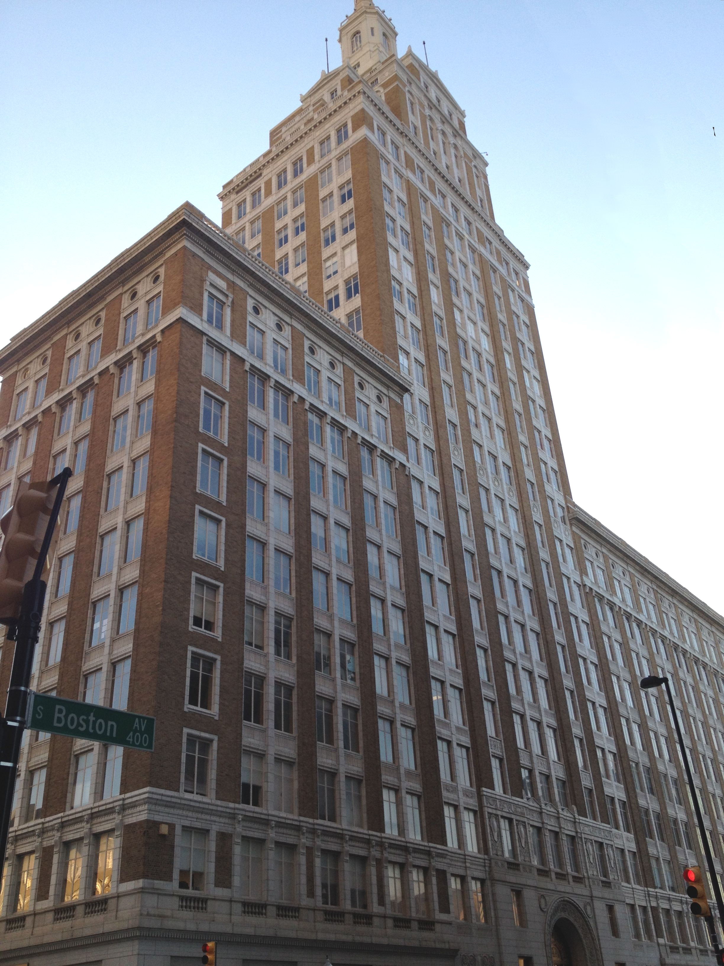 A tourist view of 320 South Boston, Tulsa, Oklahoma, USA